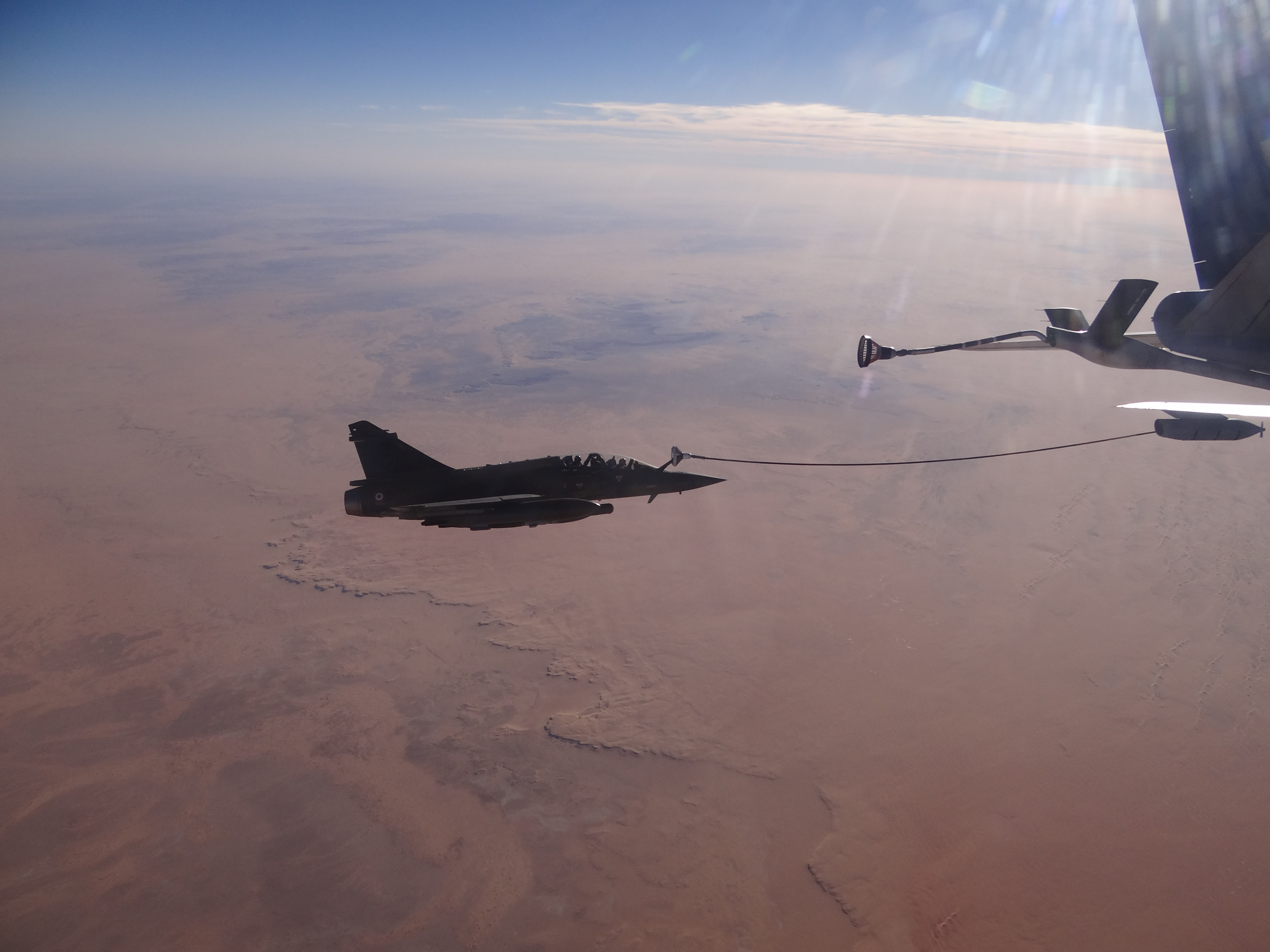 Air refueling of french Mirage 2000D over Mali